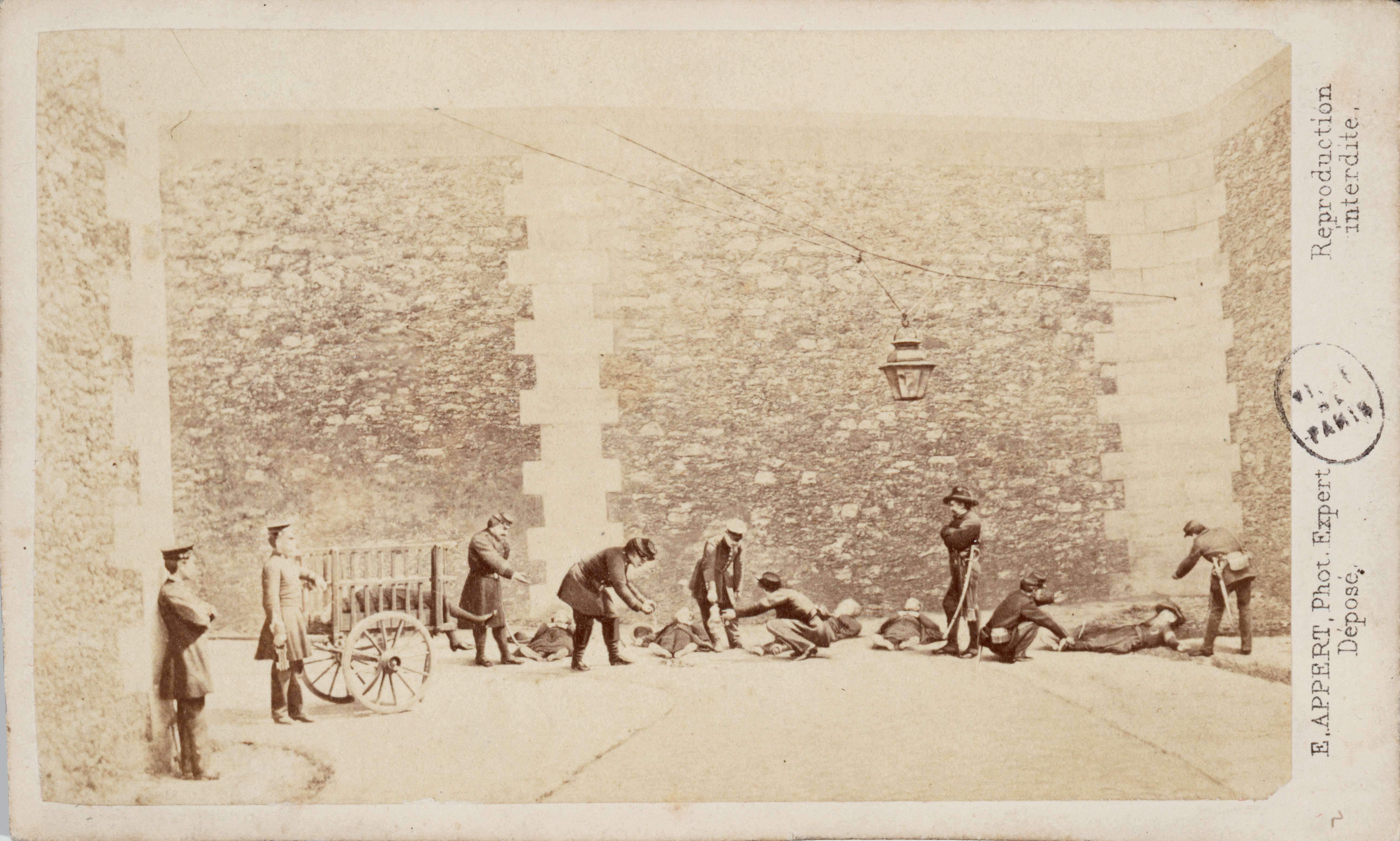 Removing the bodies of the Archbishop and other hostages.